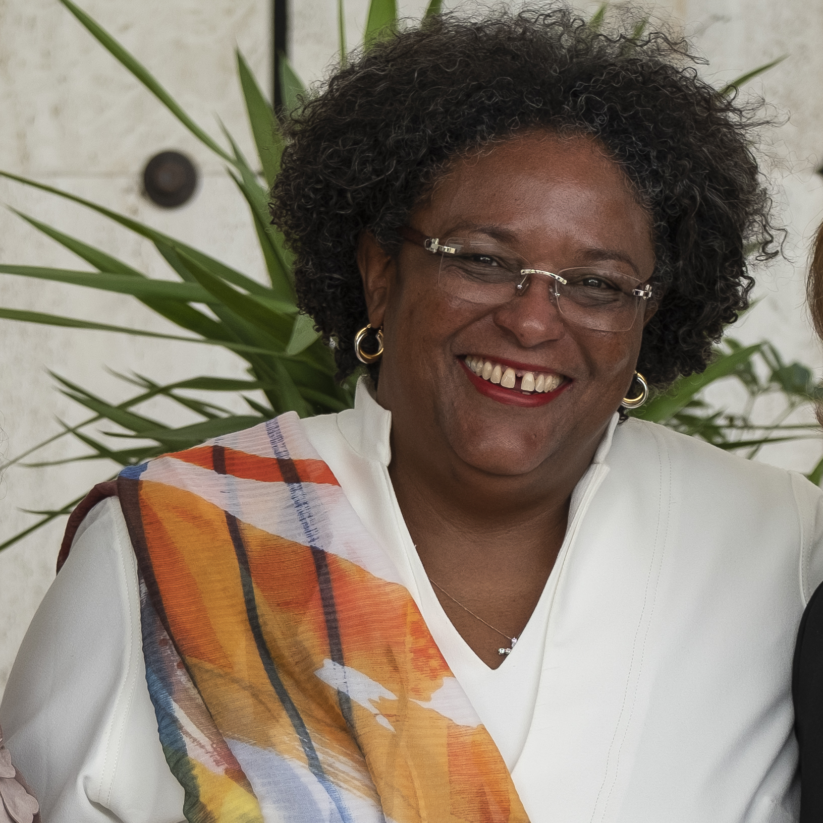 At the the 16th Raúl Prebisch Lecture by The Honorable Mia Amor Mottley, Prime Minister of Barbados, held in Geneva, Switzerland, on 10 September. Photo: Timothy Sullivan (UNCTAD) More